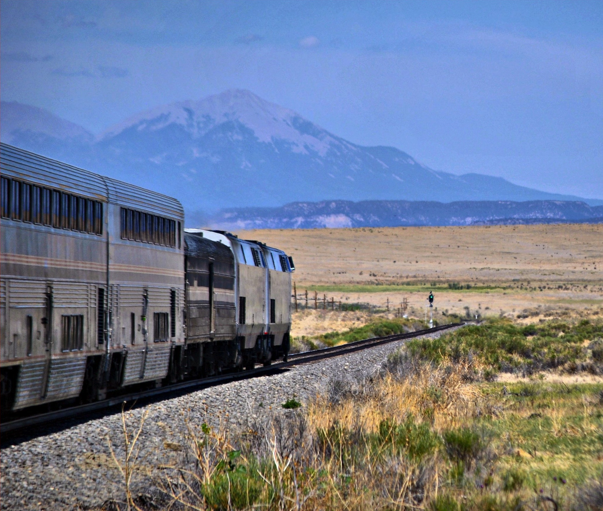 The Southwest Chief roughly 20 minutes east of Trinidad, Colorado. The Sangre de Cristo Range looms in the distance.